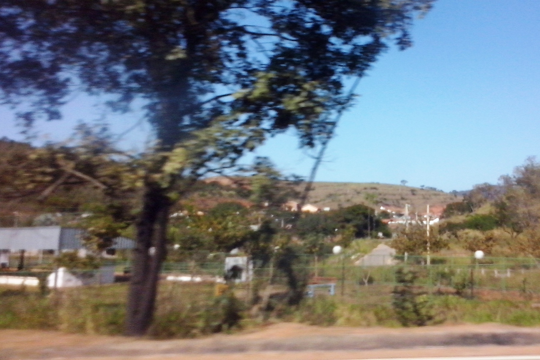 Partial view of Itueta, Minas Gerais, Brazil.